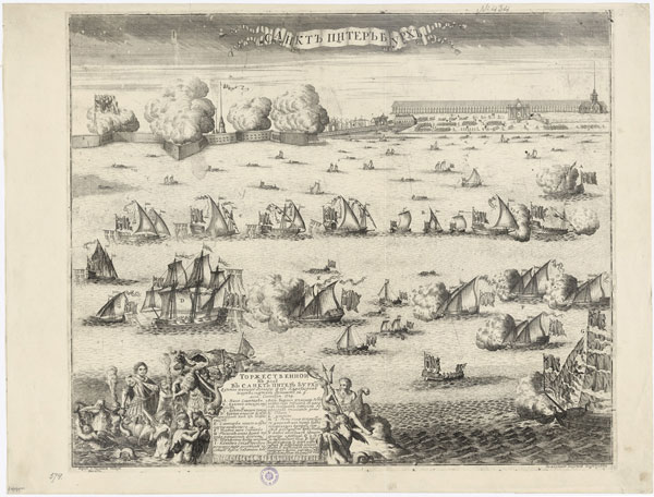 sweden ships entering spb